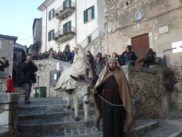 Live nativity scene, Pereto, Abruzzo, Italy